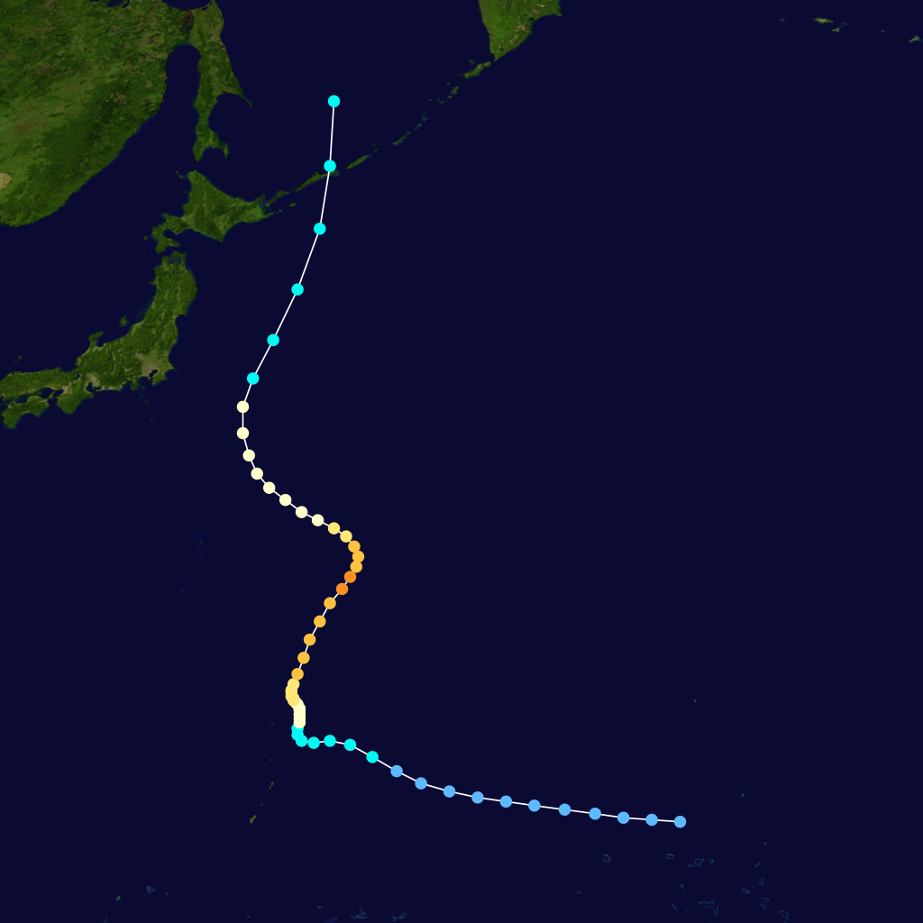 Typhoon Ryan 1992 track. Uses the color scheme from the Saffir-Simpson Hurricane Scale.